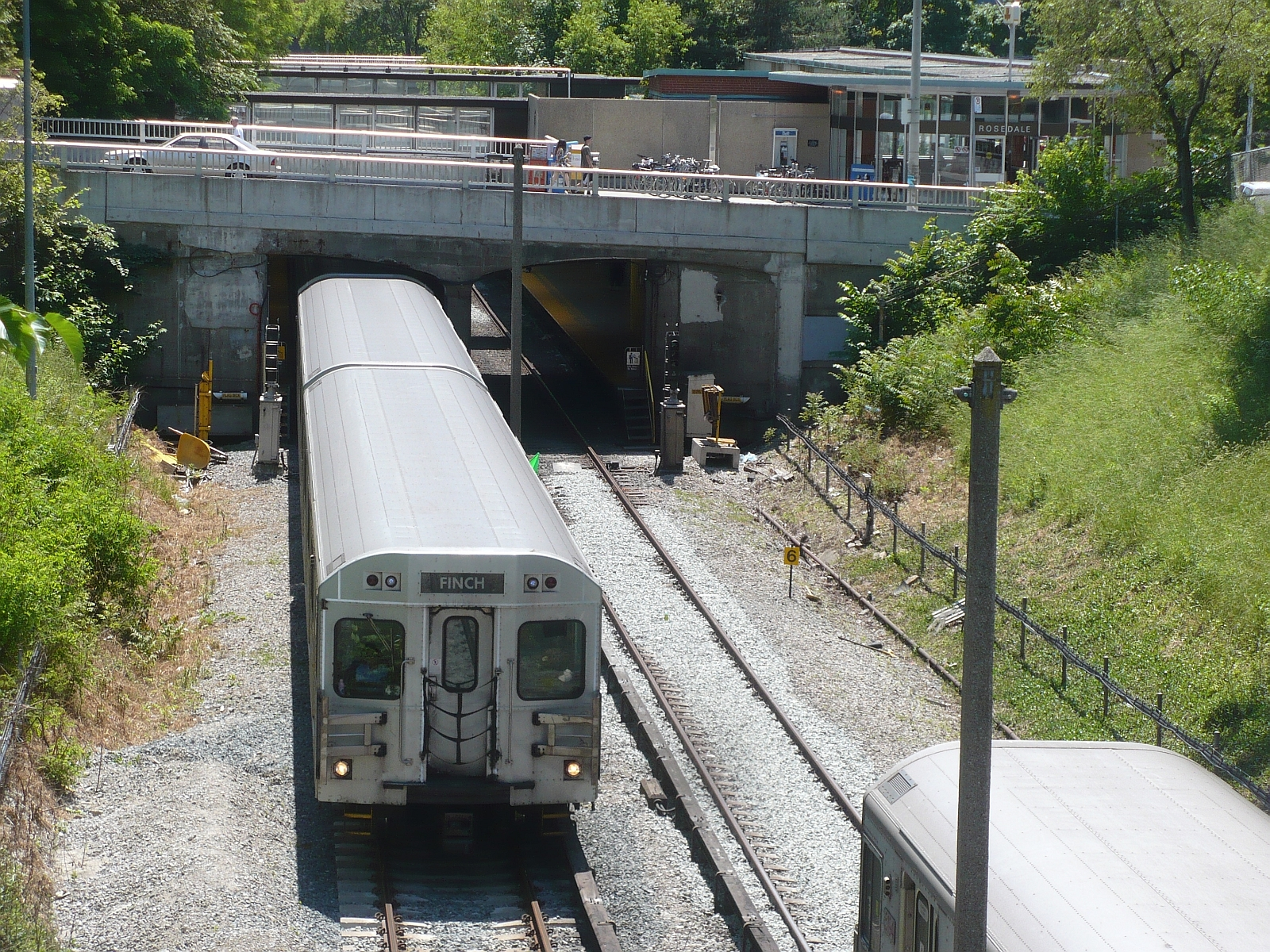 Trains meet at Rosedale subway station in Toronto